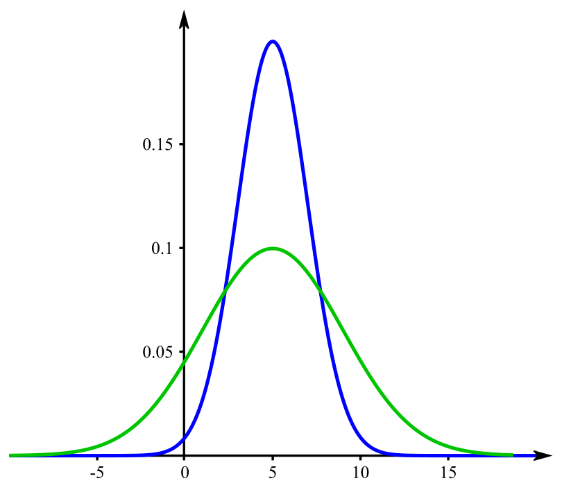 Normal distribution exampel